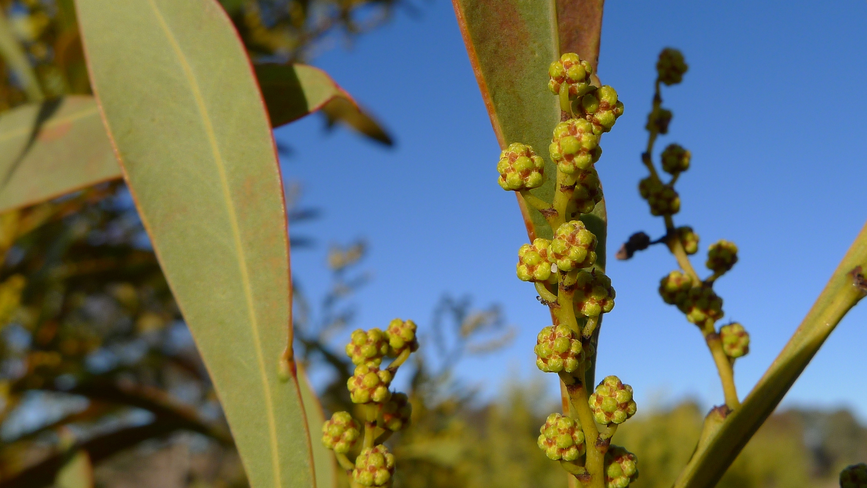 Red-stemmed Wattle, Acacia rubida, buds. Gundaroo Common, Gundaroo NSW Australia, August 2013.